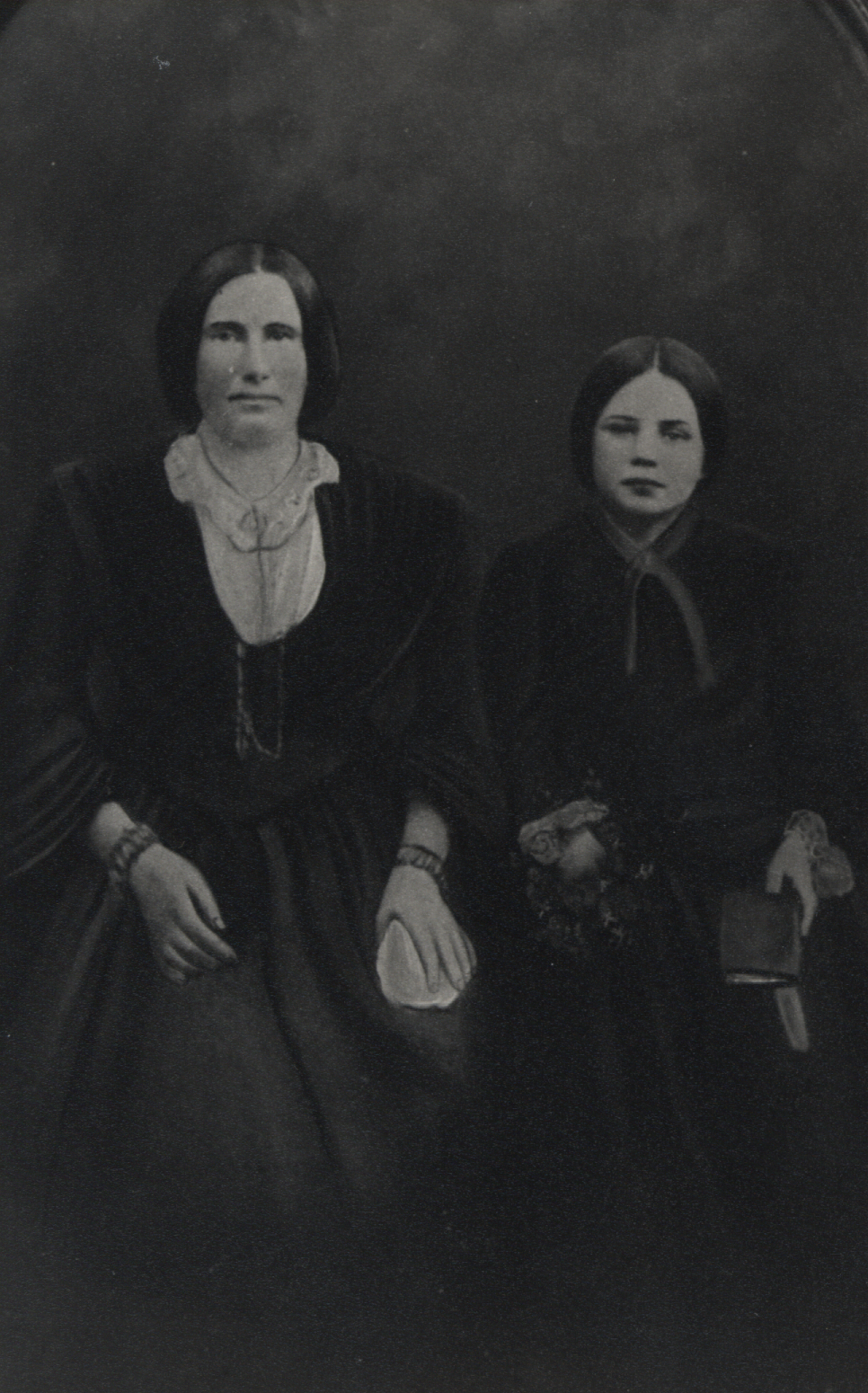 Cropped version of File:Charlotte Herbert and her daughter Esther, circa 1856.tif.